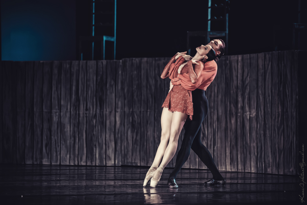 National Opera House of Ukraine_Carmen